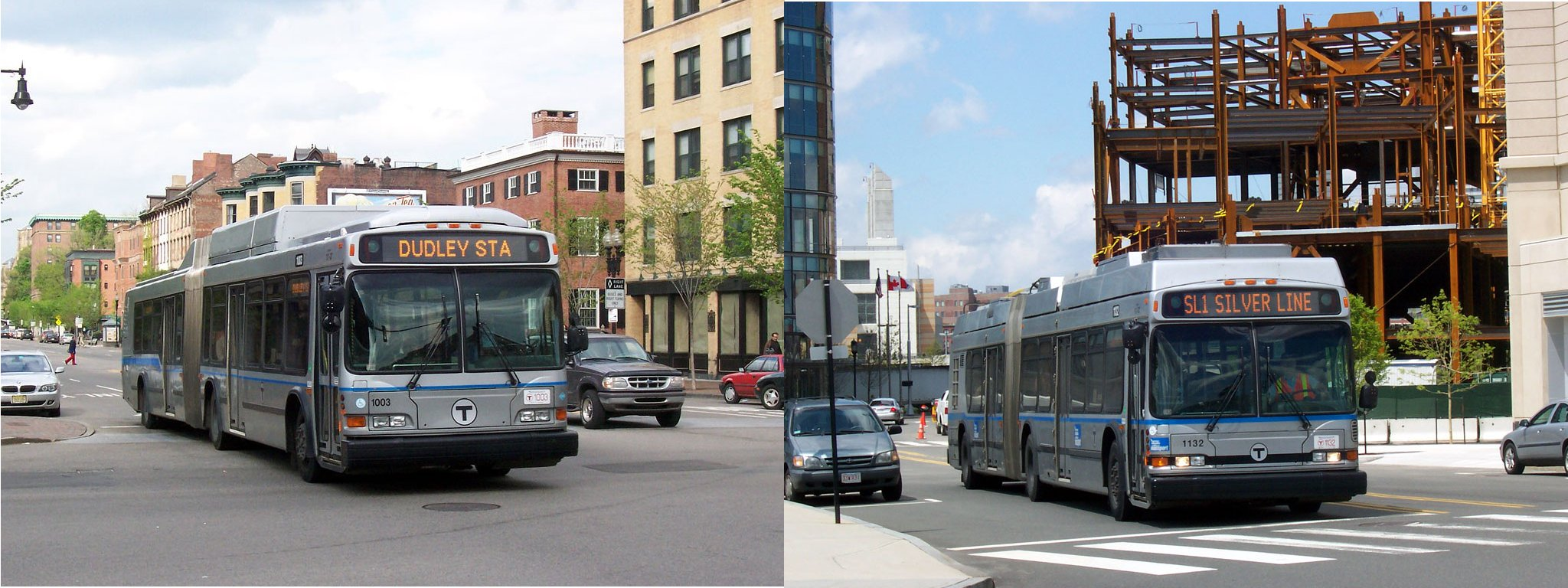 MBTA Silver Line buses (Phase I and Phase II) in service. The left picture is of the Silver Line Phase I Washington Street; the right picture is of the Silver Line Phase II Airport/Waterfront.